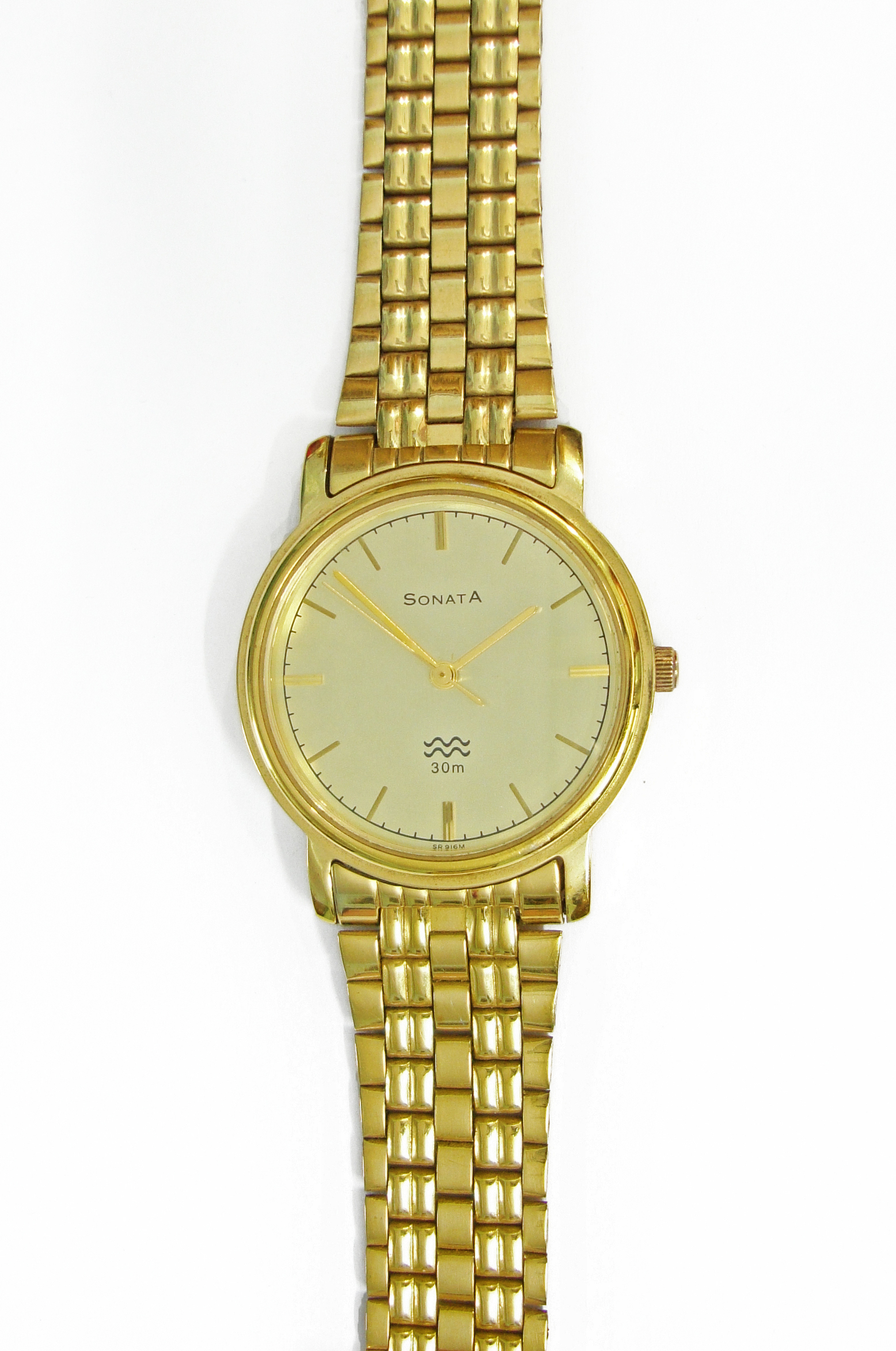 A wrist watch from sonata